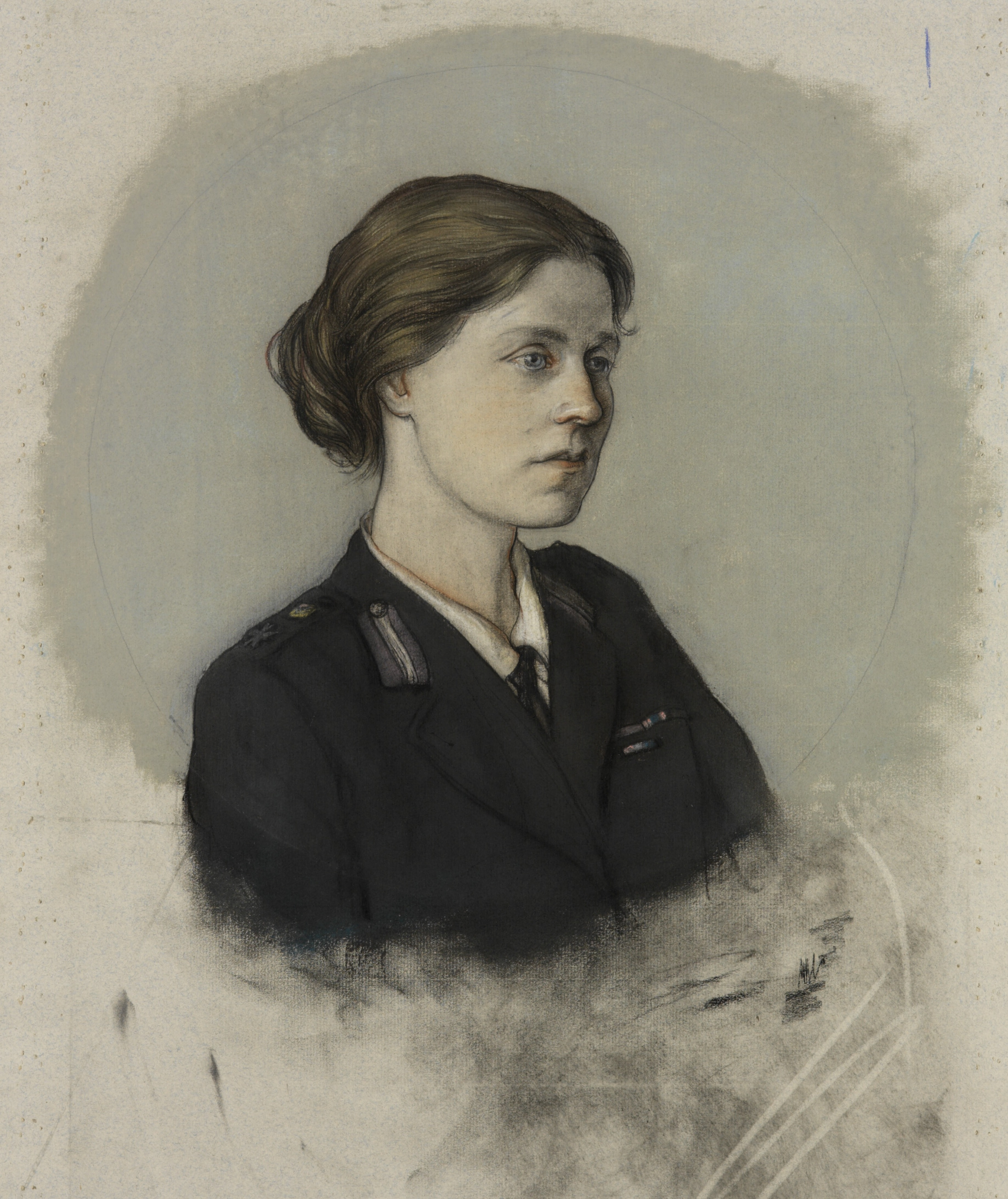 A head and shoulders portrait.